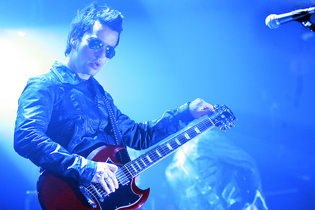 Kelly Jones of the Stereophonics